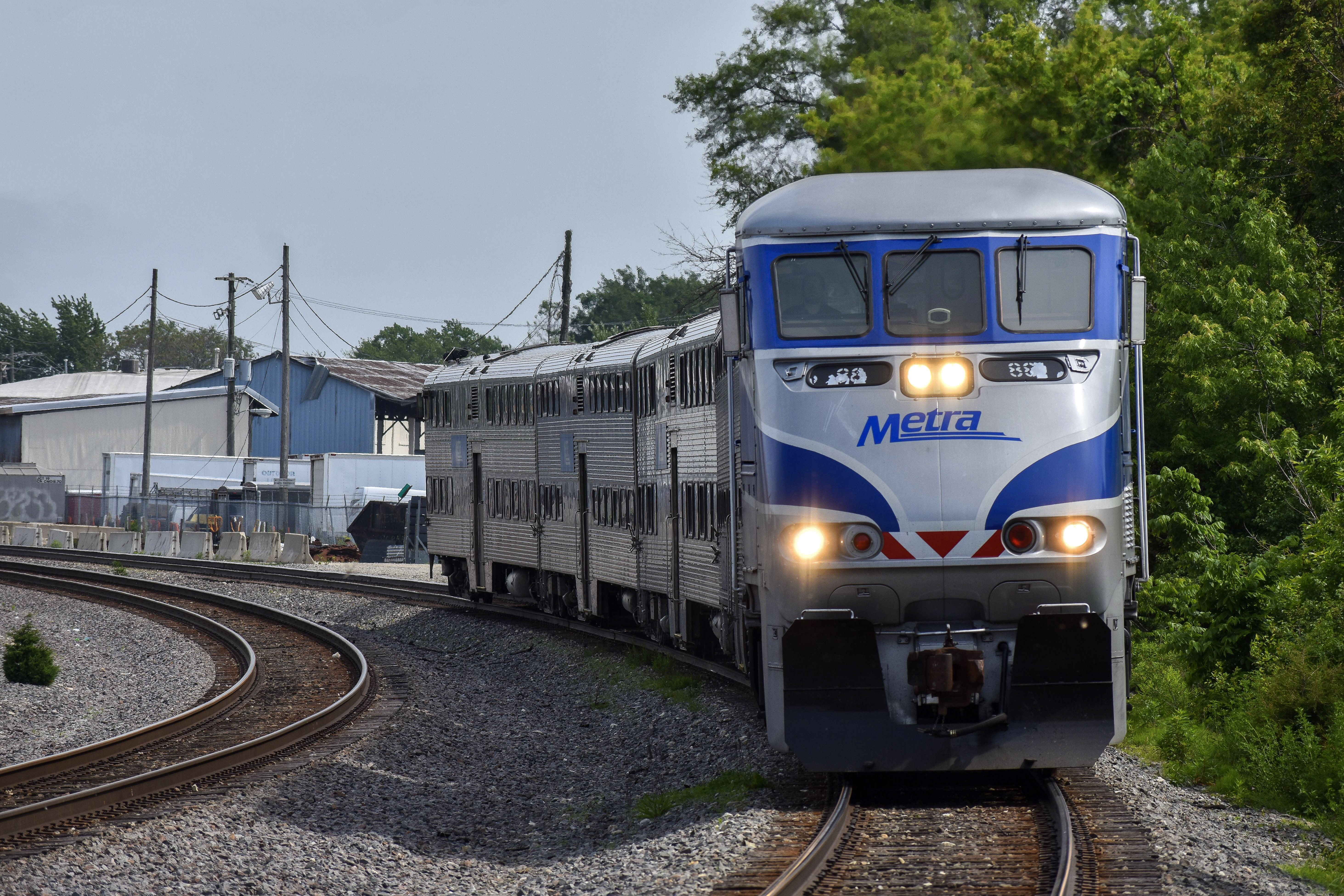 This photo was taken of a Metra commuter rail train as it makes its way north on the North Central Service to Antioch.